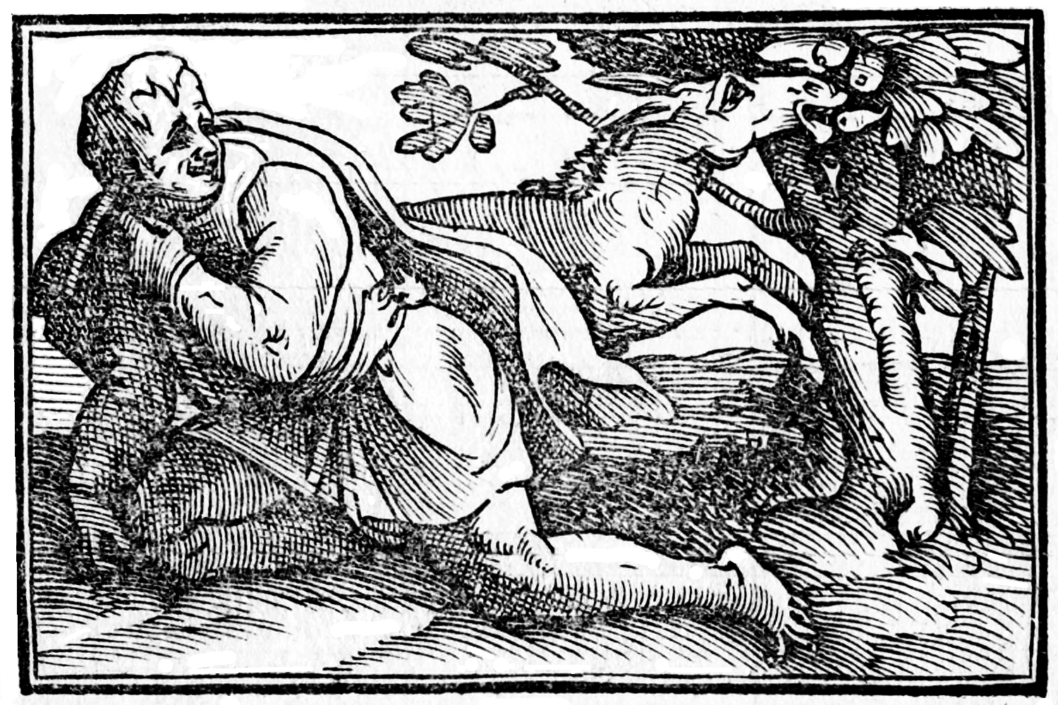 Engraving of the final moments of the life of the Stoic philosopher Chrysippus, who reportedly died laughing while watching a donkey eat figs. From the 1606 Italian book Delle Vite de Filosofi di Diogene Laertio Libri X. Image appears on page 48 and on page 55. The woodcuts in the book are attributed to "Gioseffo Salviati". Probably Giuseppe Porta, whose woodcuts of philosophers first appeared in a 1540 book called Le ingeniose sorti, composte per Francesco Marcolini da Forli.